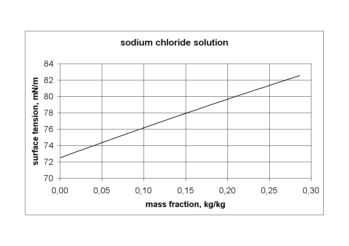 Surface tension of sodium-chloride-water mixture, as a function of the mass fraction